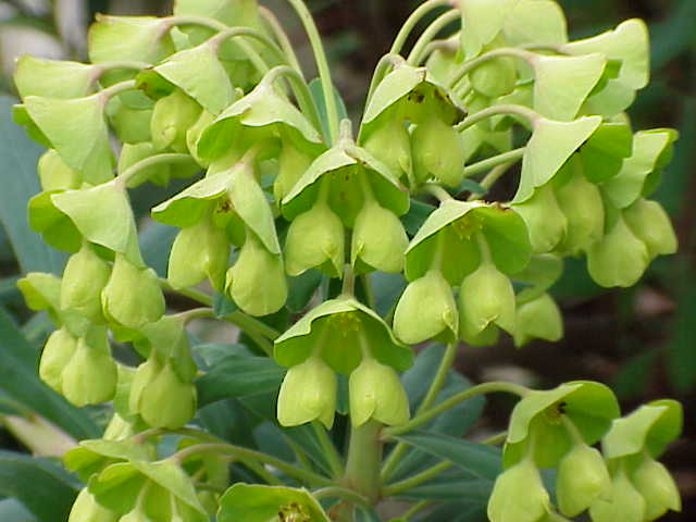 Species: Euphorbia characias Family: Euphorbiaceae Image No. 14